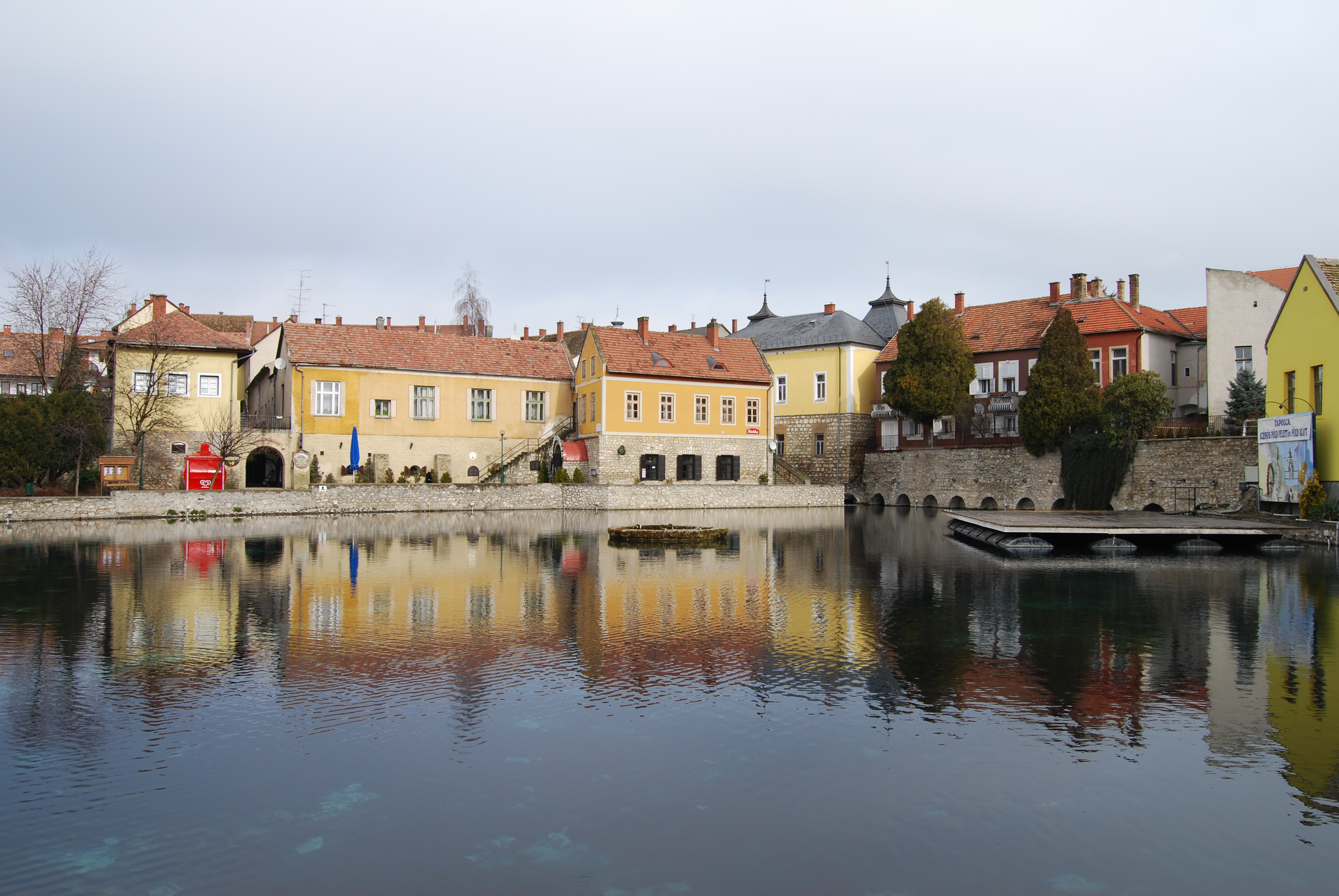 Tapolca town near Balaton lake, Hungary. Sight to the small pond near towncenter.